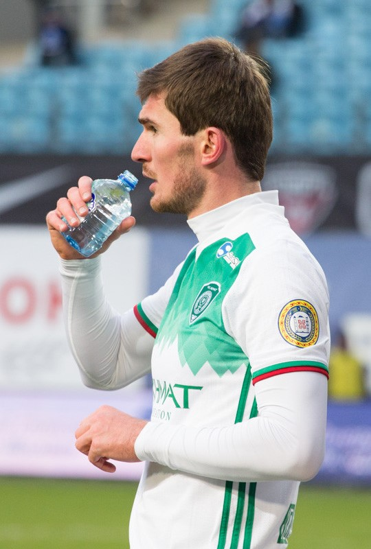 Zaurbek Pliyev